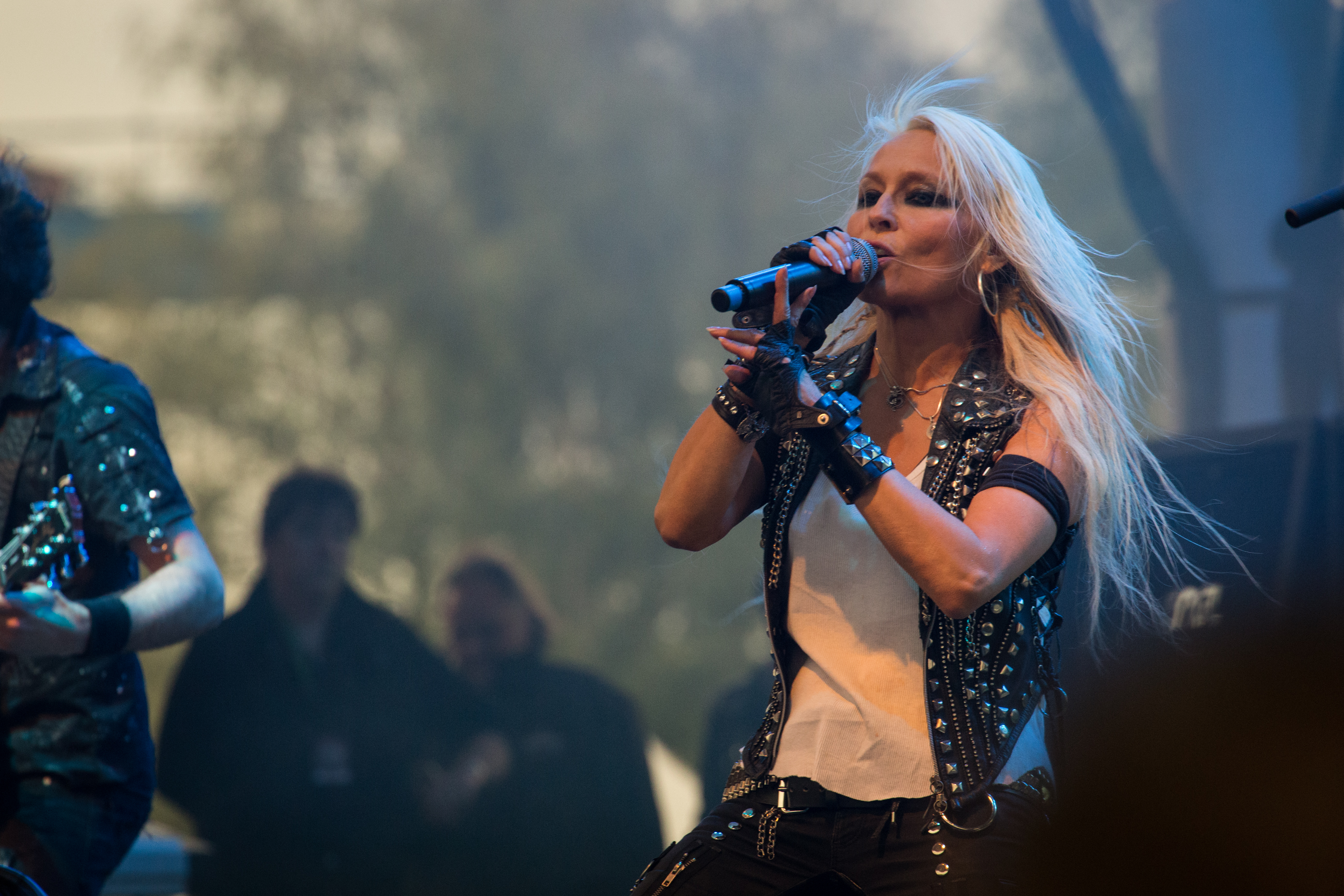 Doro performing live at Rock Hard Festival, May 2015, Gelsenkirchen